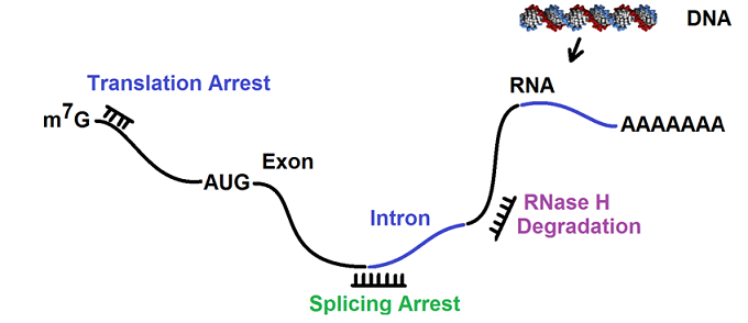 BNA9